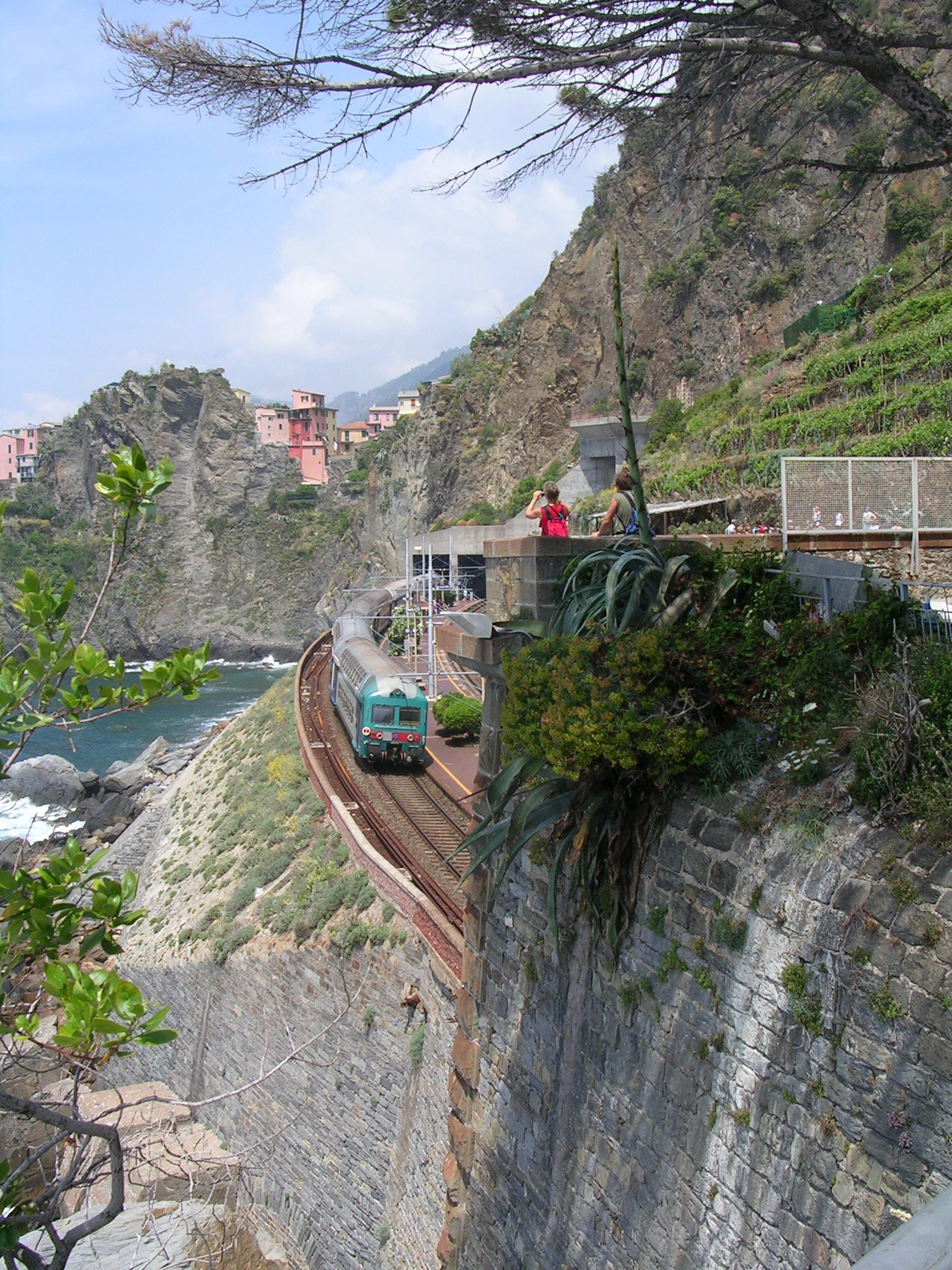 Note: Contrary to the title La Spezia is somewhere in the photographer's rear and also the train has originated in La Spezia, as Italian Railways circulate on the left.